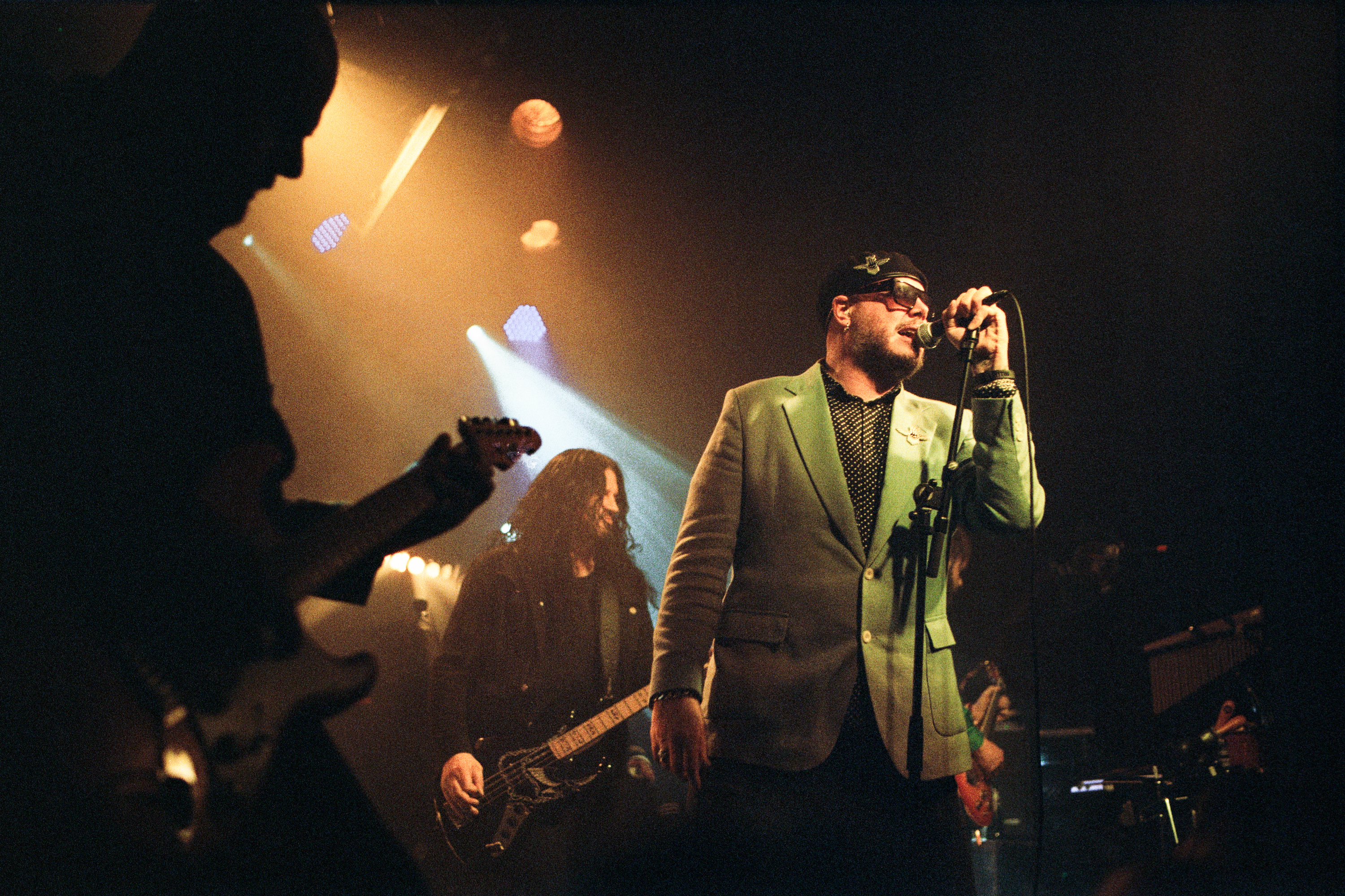 The Night Flight Orchestra on stage in Paris during the Amber Galactic European tour.